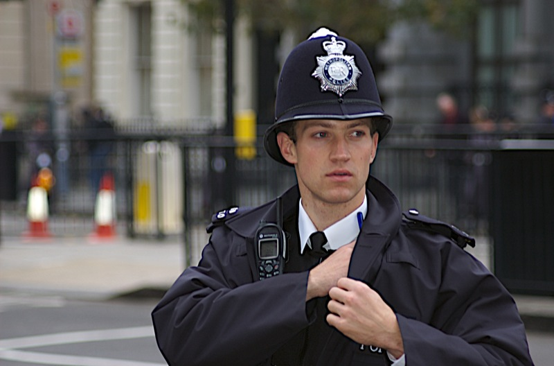 My name is Will or Policeman as (arresting) model